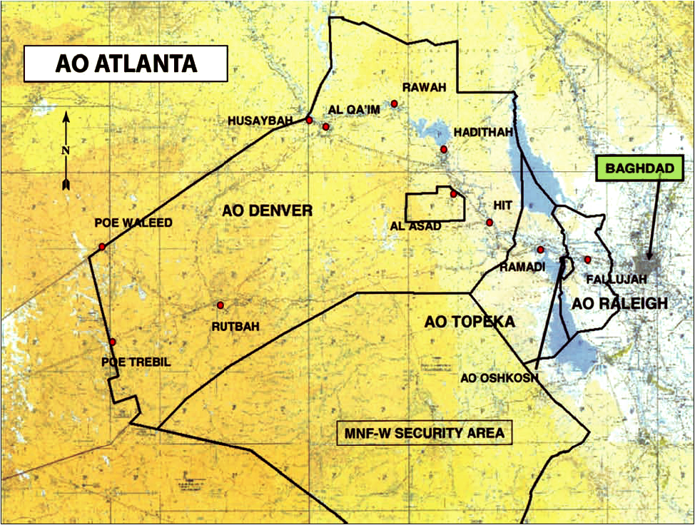 Original Caption: "Iraq’s al-Anbar Province was divided into Areas of Operation. I MEF’s (code named Atlanta) included Area of Operations Denver (western region), Area of Operations Topeka (Ramadi and its surrounding area), Area of Operations Raleigh (Fallujah and surrounding areas), and Area of Operations Oshkosh (al-Taqaddum)."